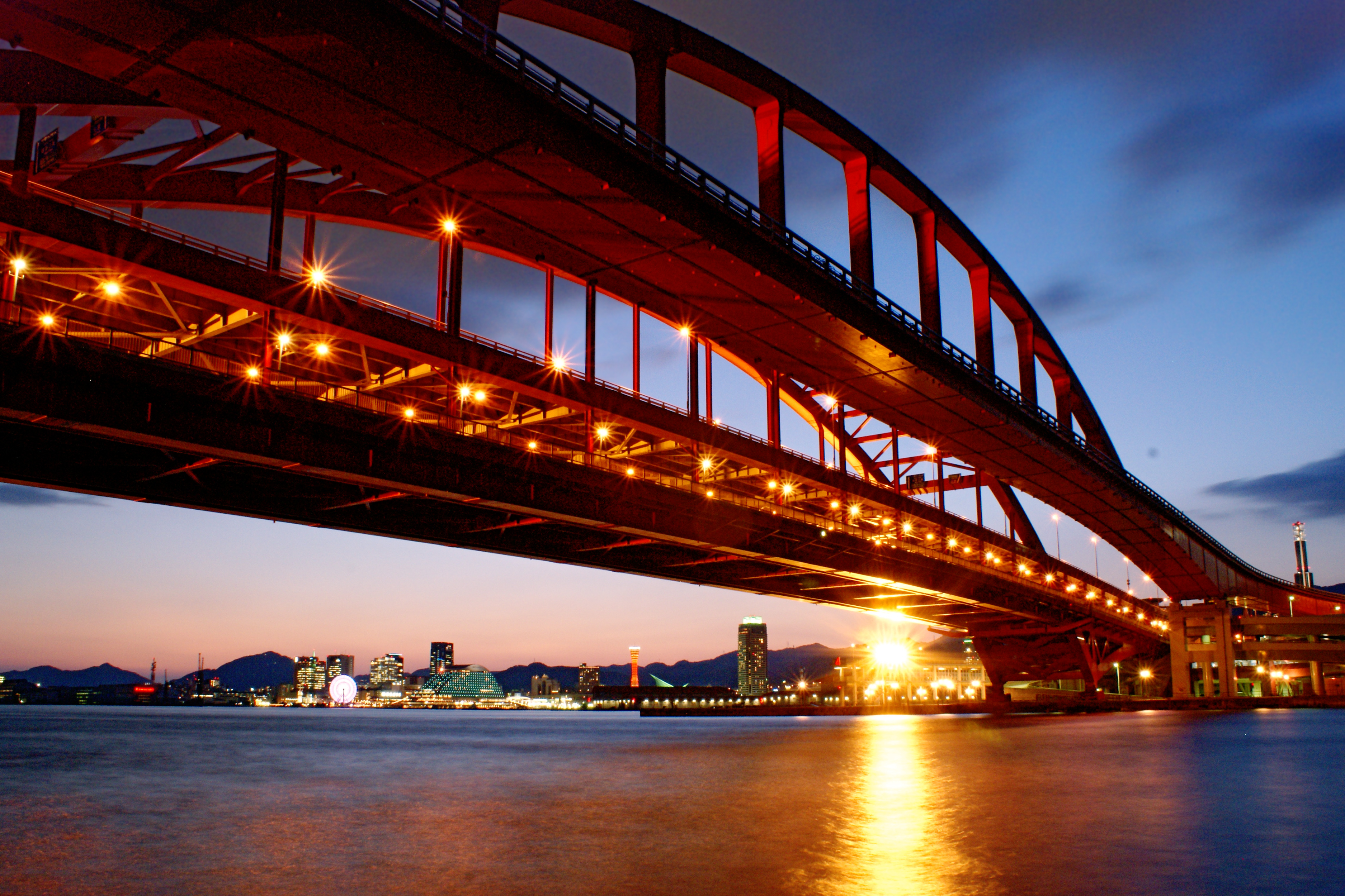 Kobe bridge (Kobe-ohashi) of the Kobe harbor at the time of twilight in Kobe, Hyogo prefecture, Japan